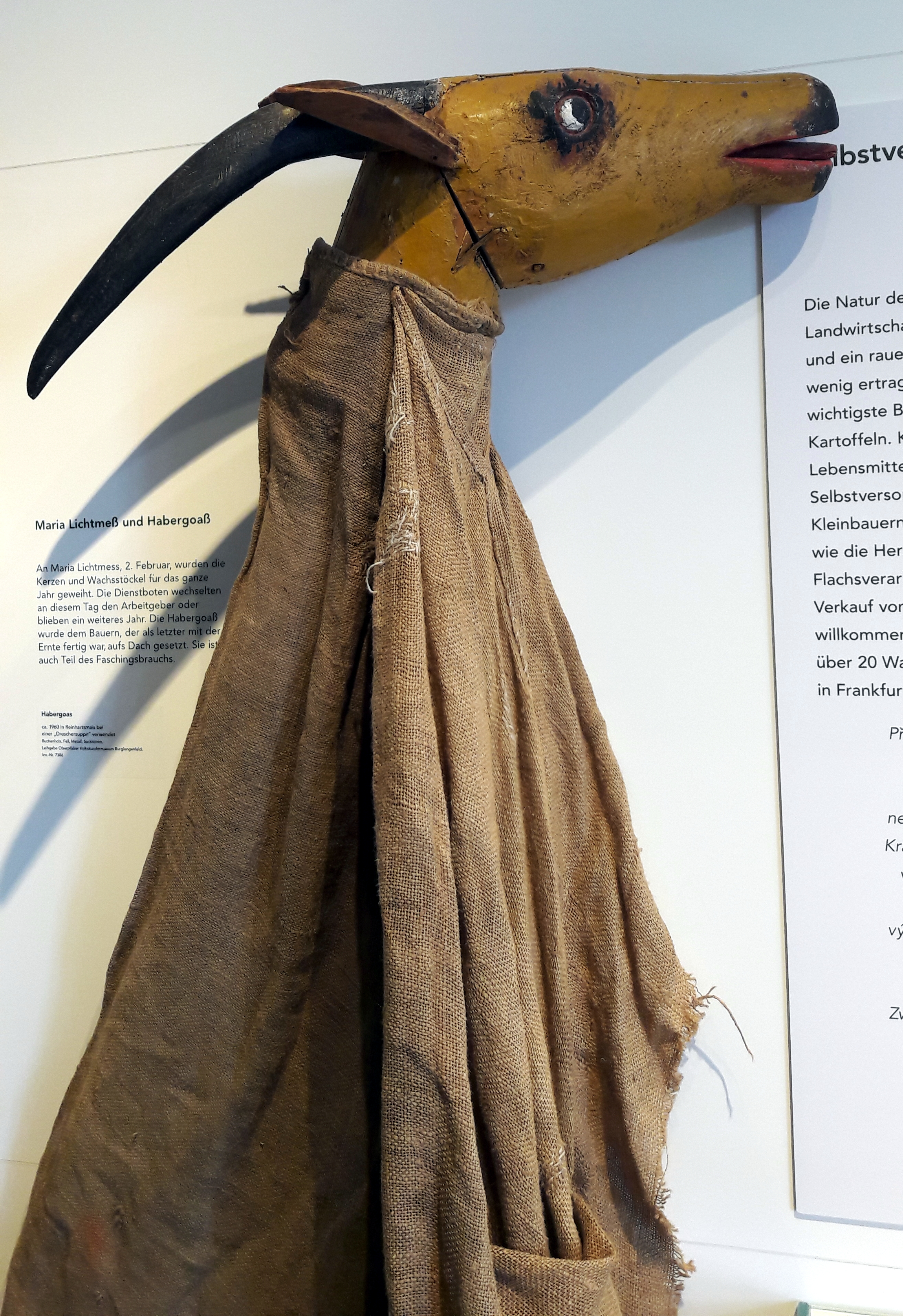 Zwiesel ( Lower Bavaria ). Forest museum - "Hobergoas".